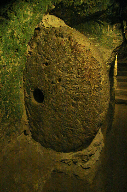 stone wall